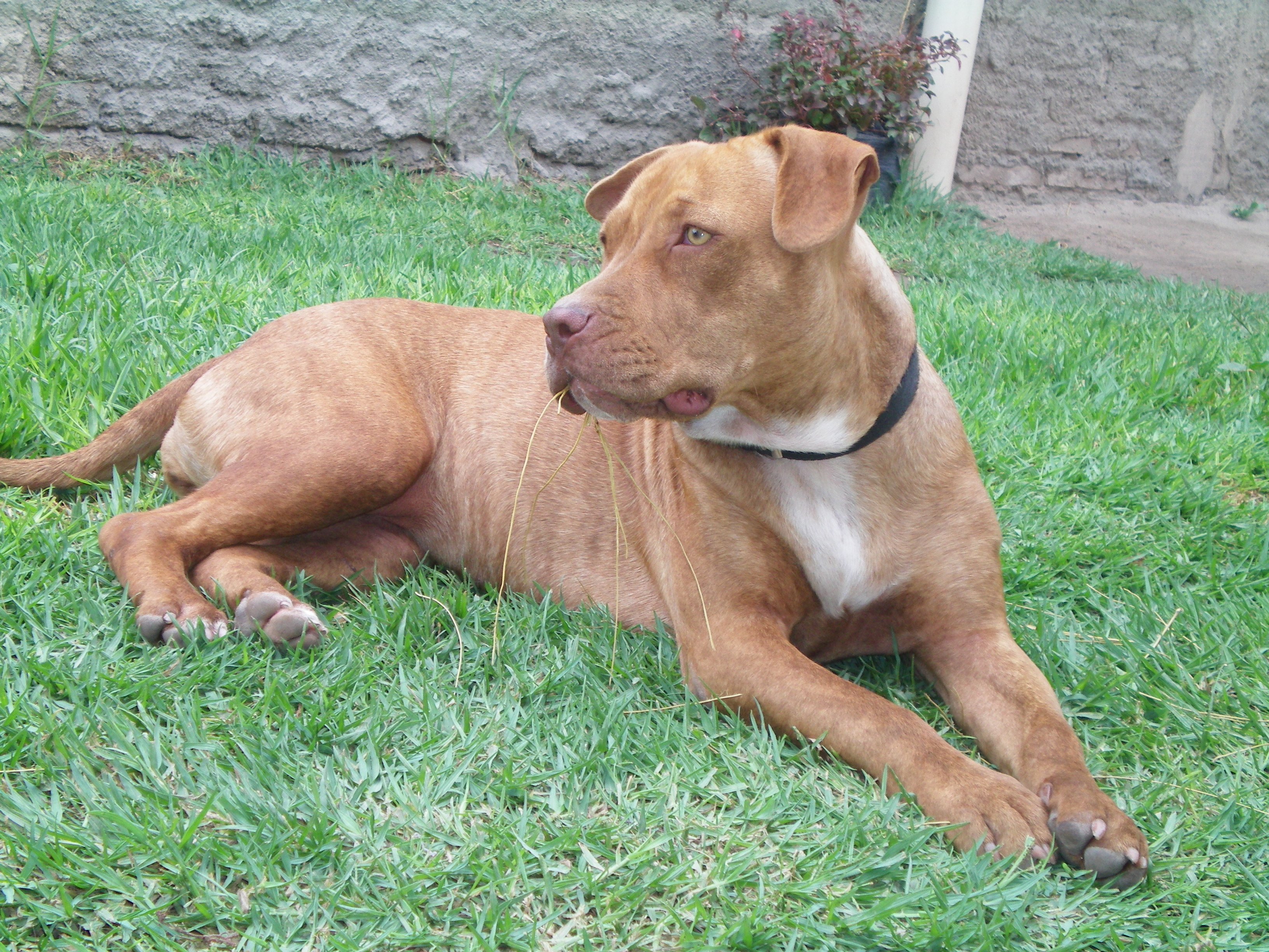 American Pit Bull Terrier